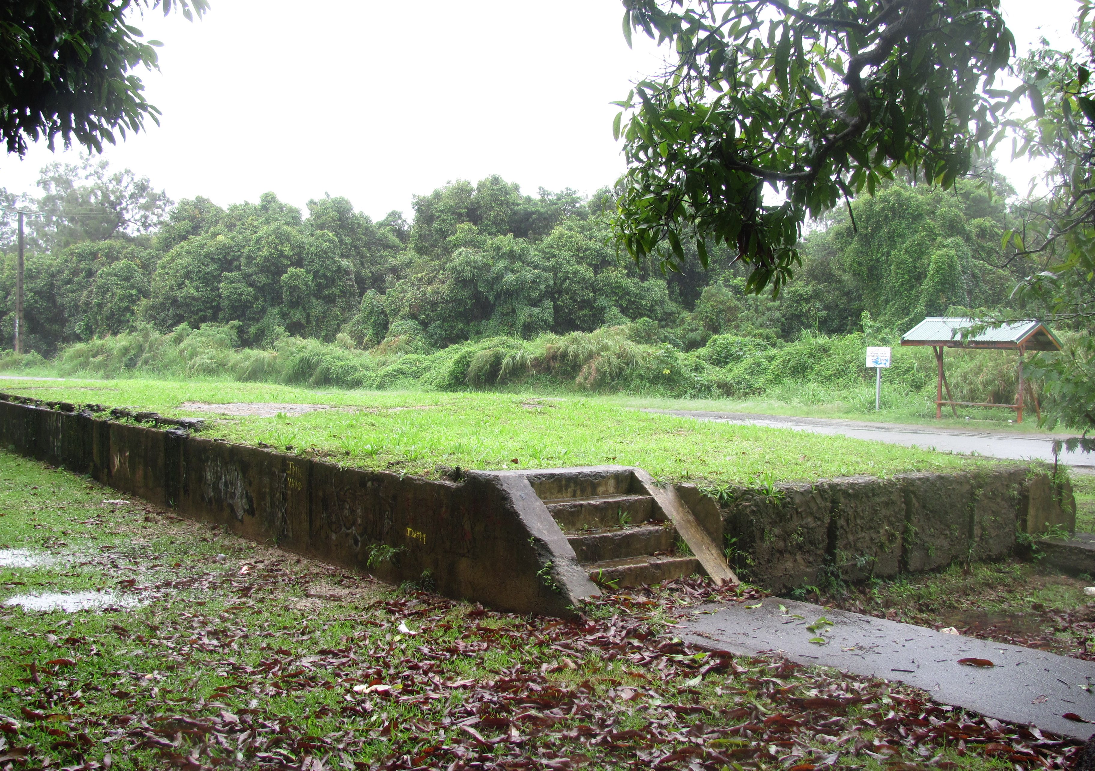 Former railway station, Paita, New Caledonia